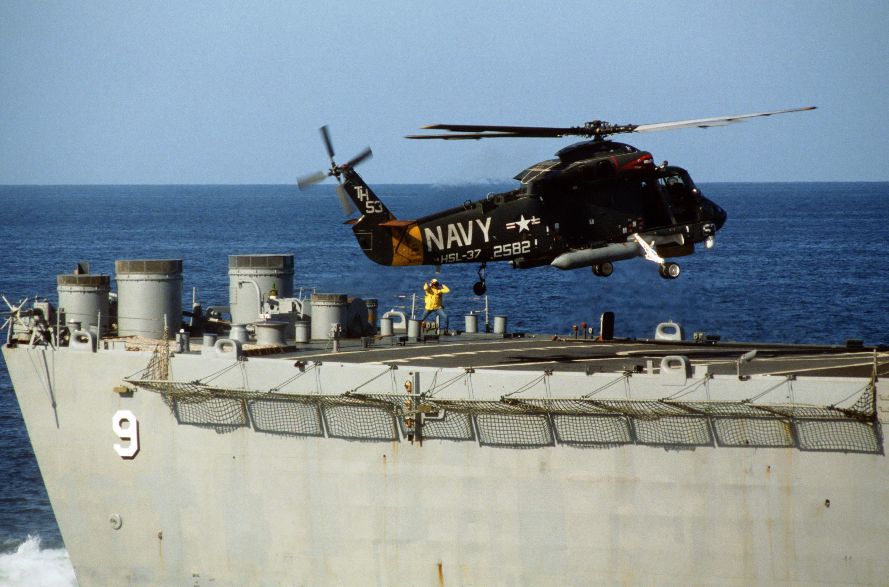 A U.S. Navy Kaman SH-2F Seasprite (BuNo 162582) of Helicopter Light Anti-submarine Squadron 37 (HSL-37) lands on the deck of the guided missile cruiser USS Long Beach (CGN-9) in the Gulf of Oman, in 1987.